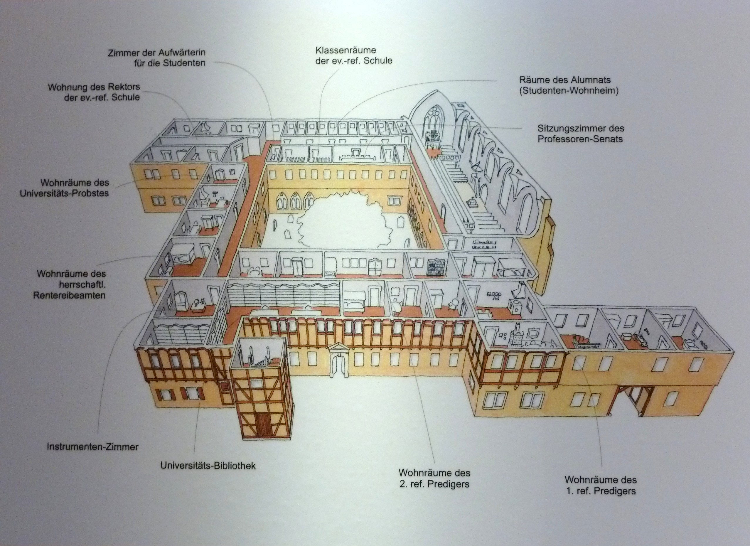 University building and functional use (upperfloor)